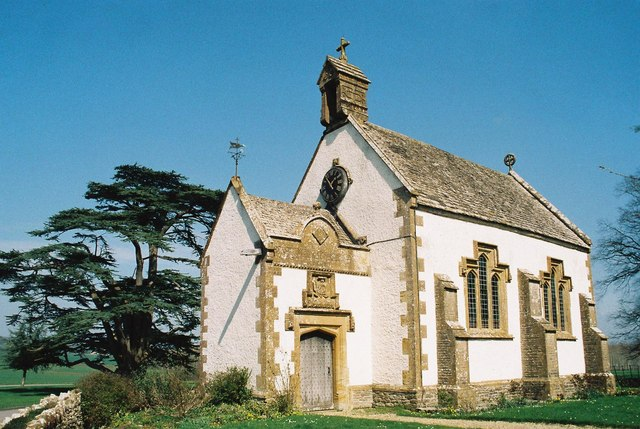 Chapel of the Holy Trinity, Leweston, Dorset, England. Built in 1616 for Sir John Fitzjames. Now part of Leweston School.